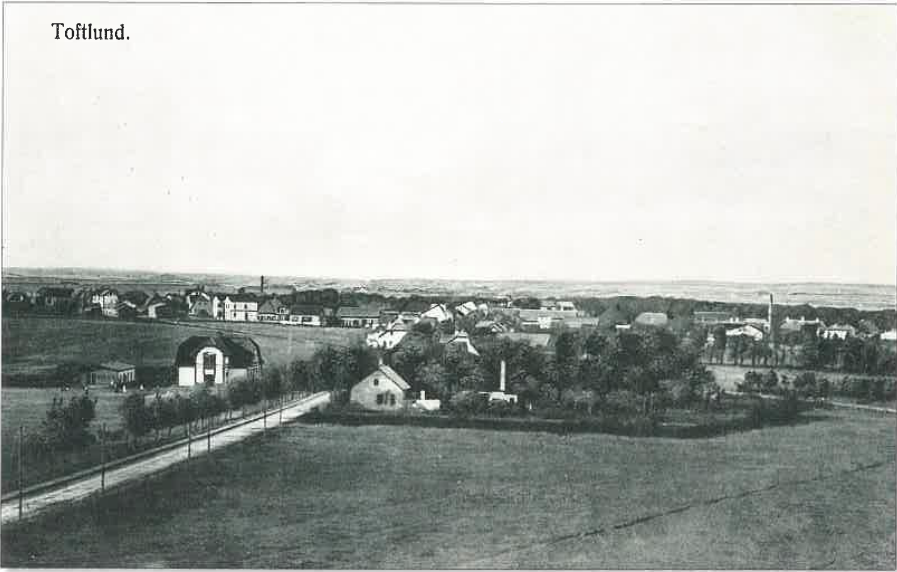 Photograph of Toftlund from the south (Søndergade is featured in the left quadrant) 1916